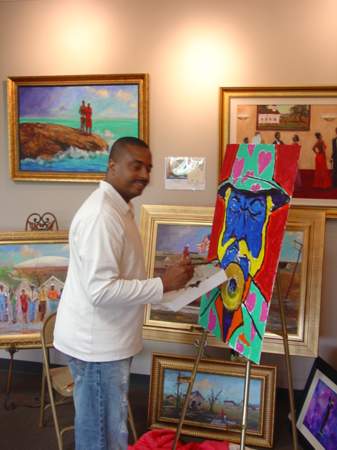 Art of Ted Ellis